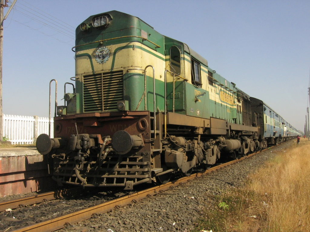 A WDM 3A (no 17897) diesel locomotives used by indian Railways